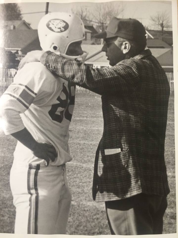 John Robert Biolo Sr., Head Coach of Green Bay West High School Football.